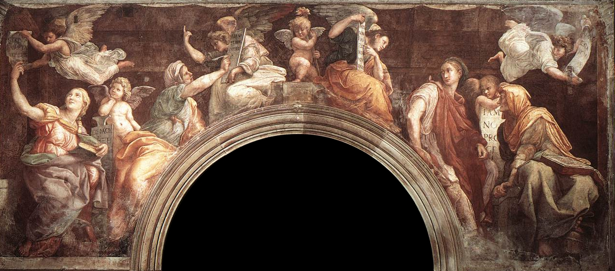 RAFFAELLO Sanzio The Sibyls Fresco, width at base 615 cm Santa Maria della Pace, Rome